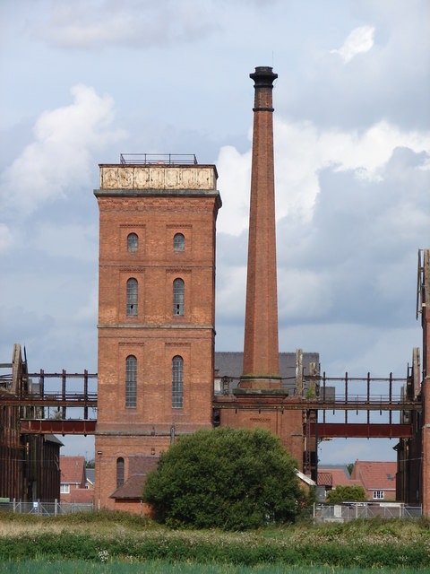 A Small Part of a Large Complex Sleaford's Bass Maltings. Industrial heritage at its most prominent. The flat land surrounding Sleaford ensures that the buildings can be seen from miles around. But what to do with the site? Clear it for new development? Preserve it? Who pays? Who's interested? See what you think